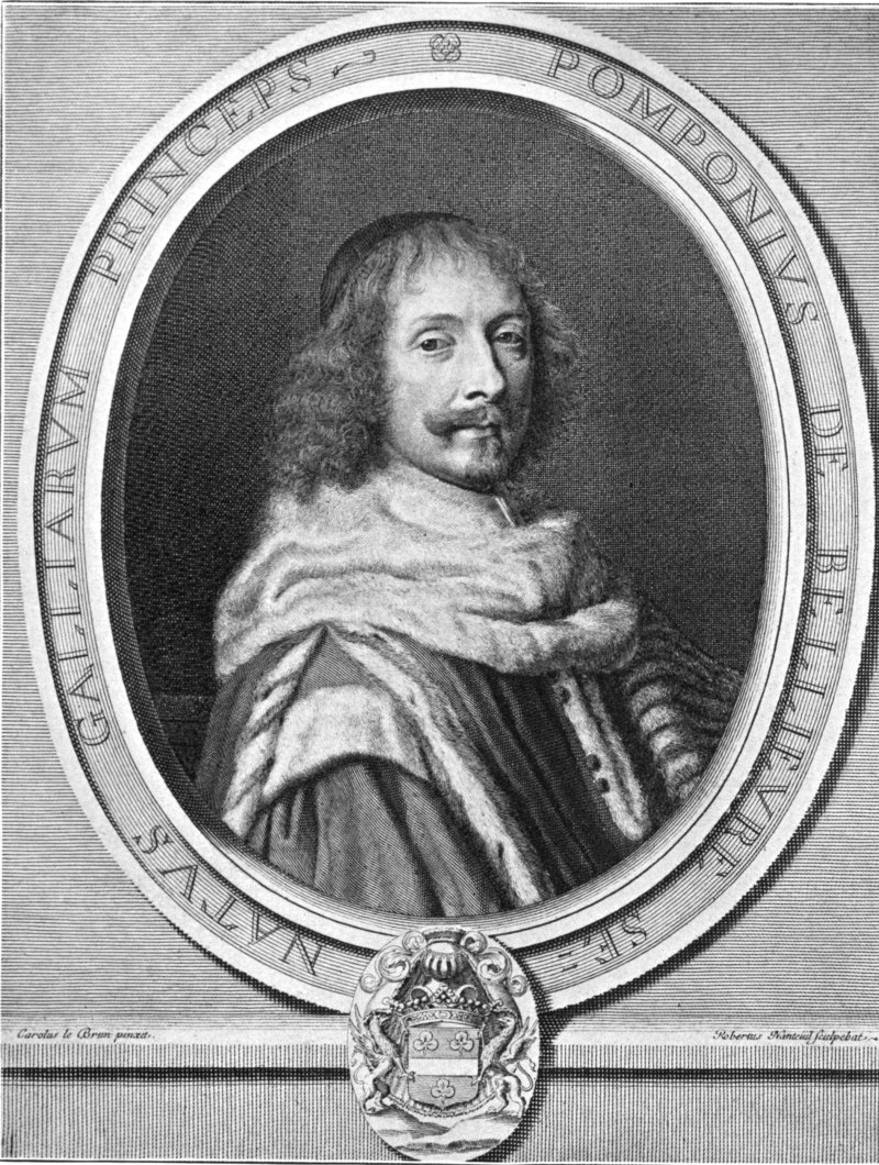 POMPONIUS DE BELLIEVRE SENATUS GALLIARUM PRINCEPS, engraving of Pompone de Bellièvre (1606-1657), first president of the Parliament of Paris